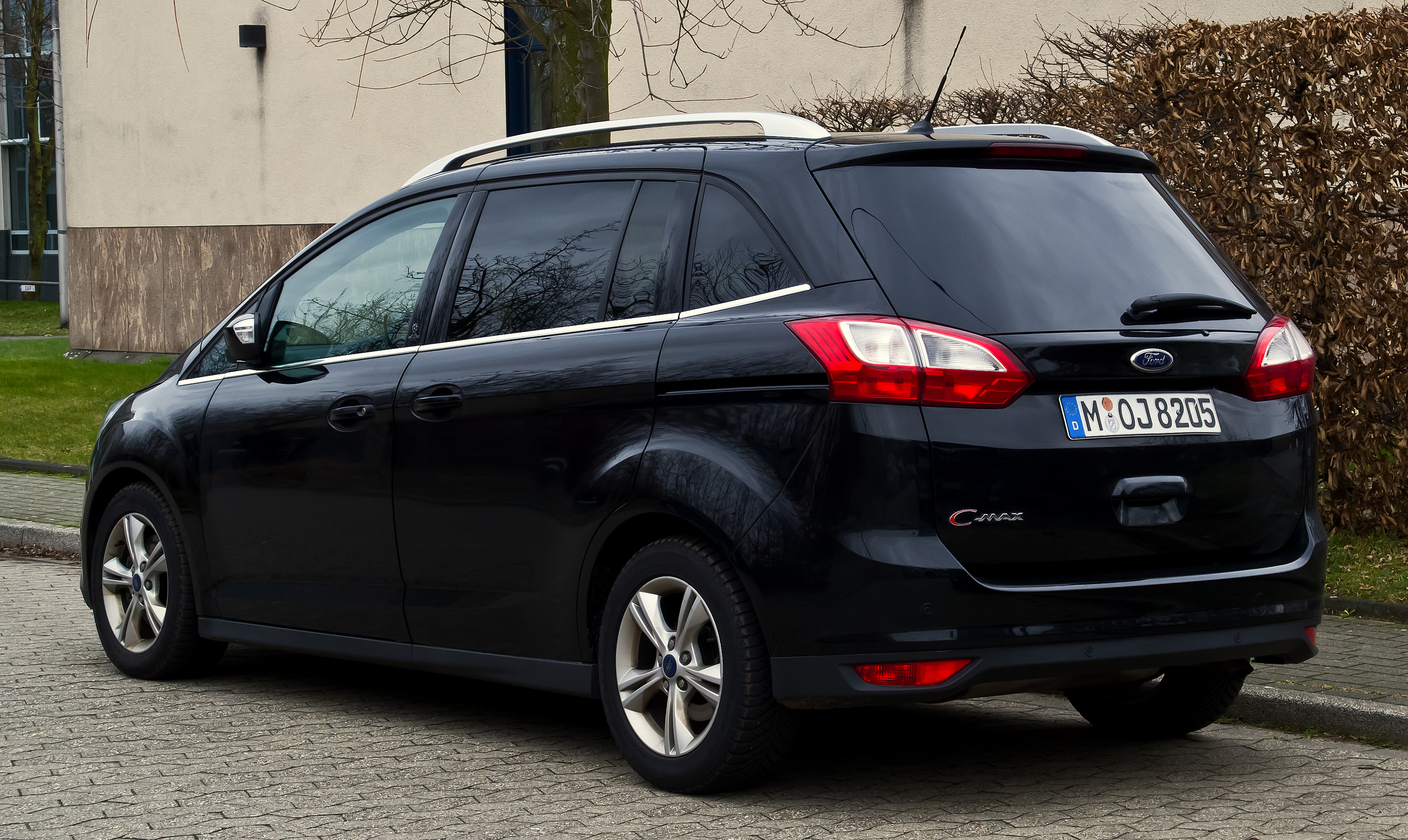 Ford Grand C-Max Champions Edition (II)